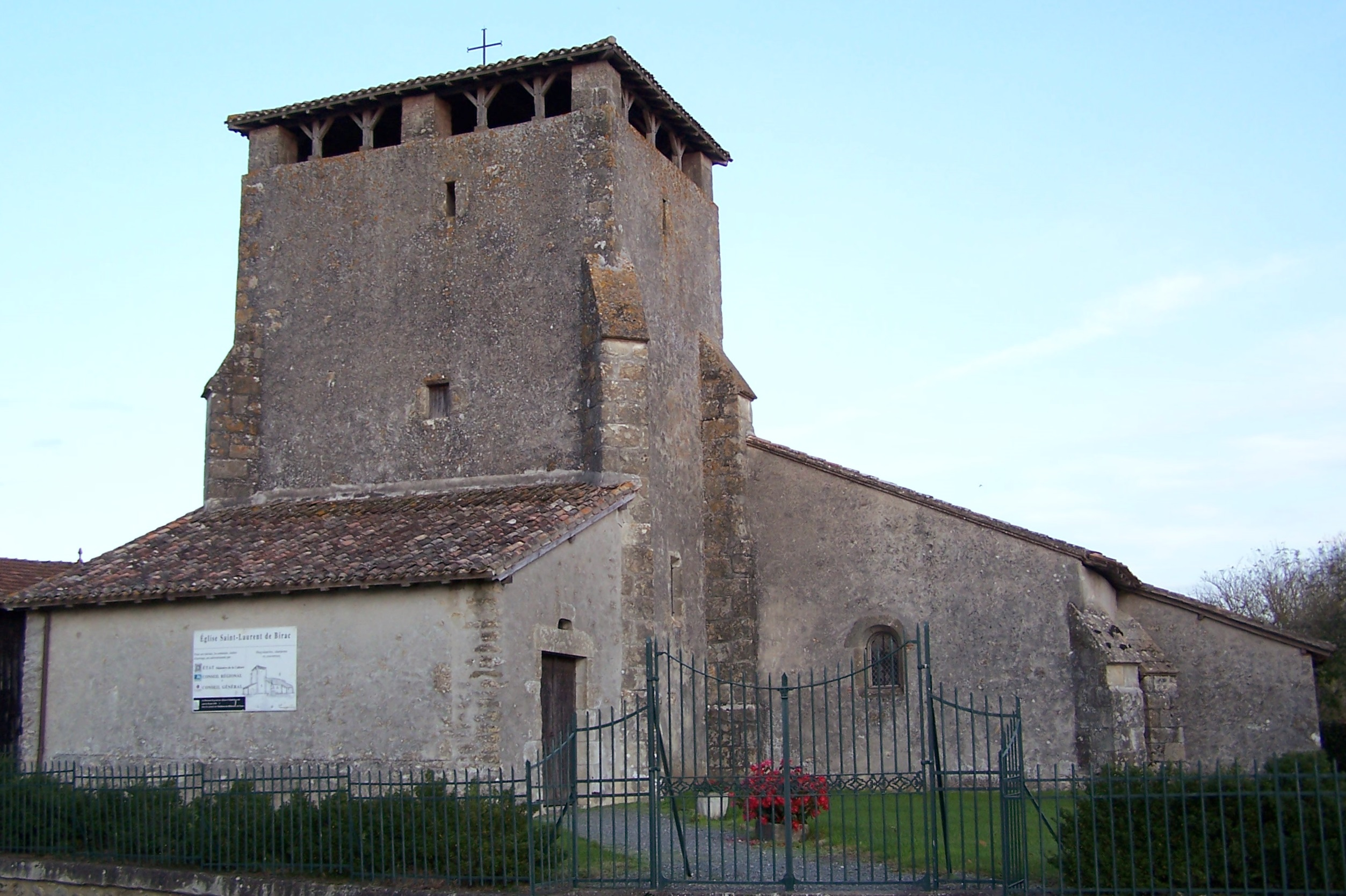 Church of Birac (Gironde, France)